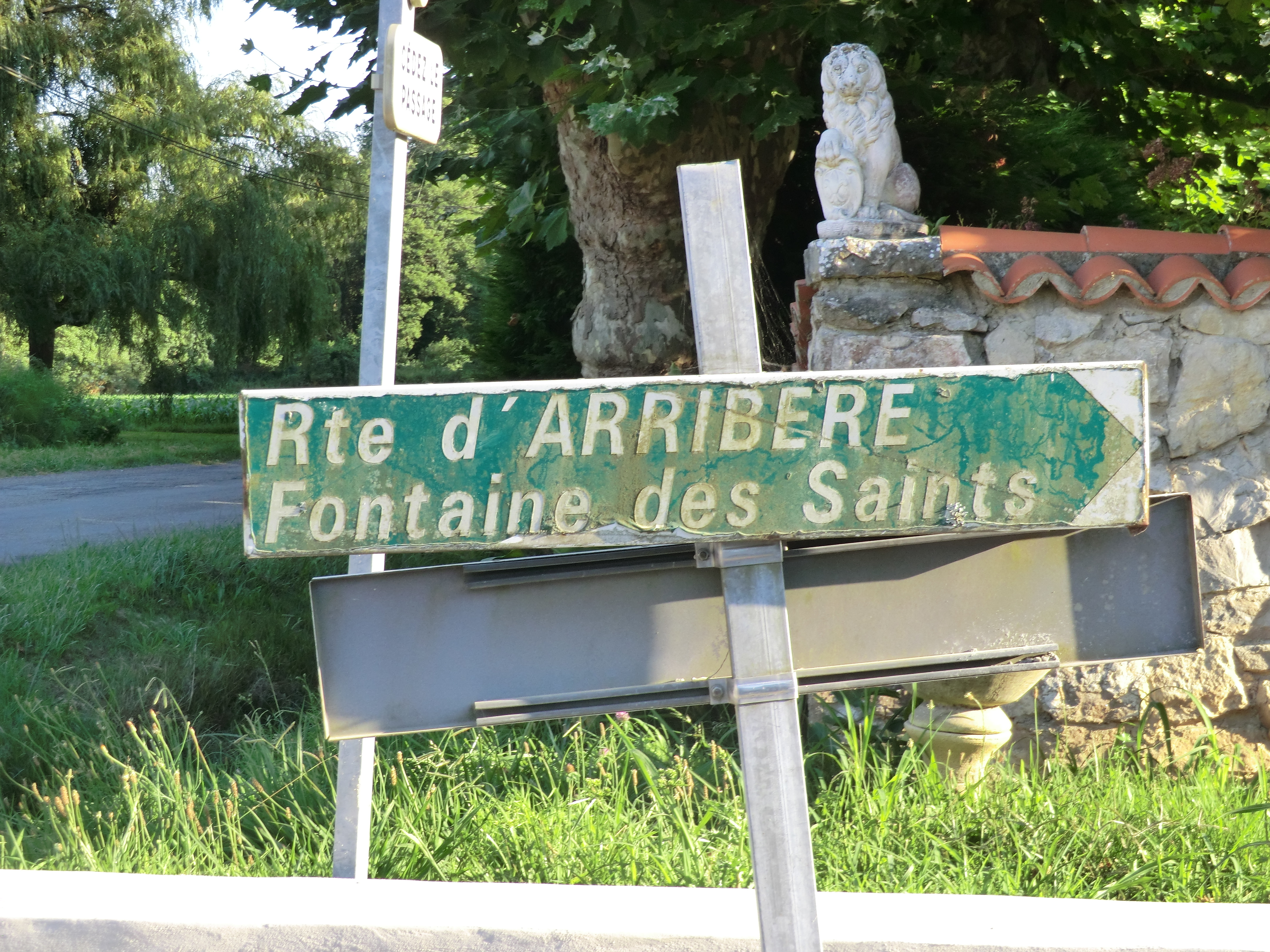 Indication Fontaine des Saints (Saint-Martin-de-Seignanx).